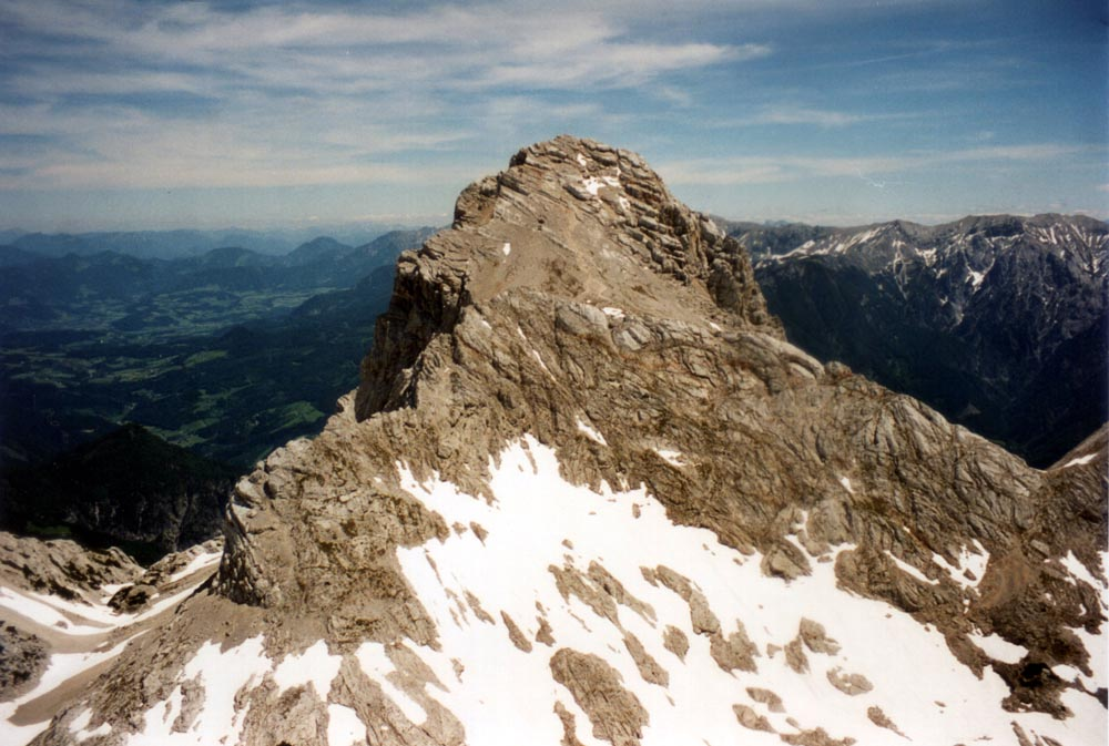 Spitzmauer (2446 m, Totes Gebirge) as seen from west (from Temlberg (2331 m)), in the foreground Weitgrubenkopf (2259 m), Upper Austria